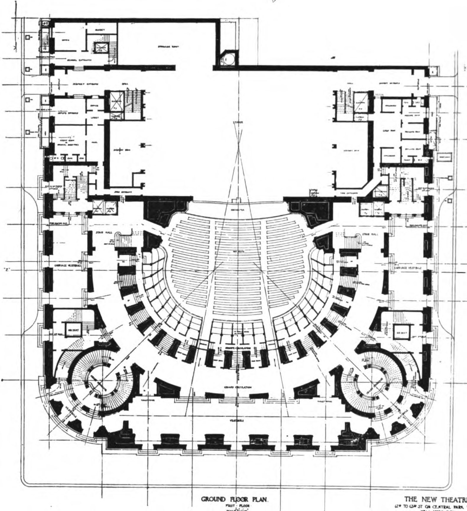 Ground floor plan of the New Theatre on Central Park West in New York City.